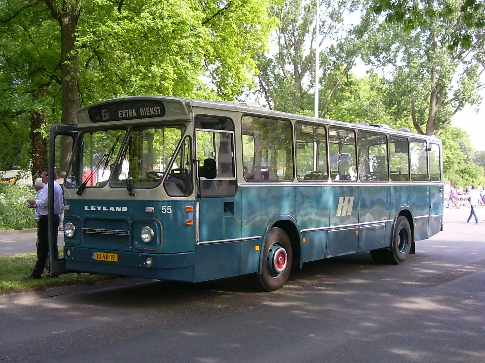 Henri Nefkens museumbus 55 (ex Nefkens), Den Oudsten / Leyland LVB568.